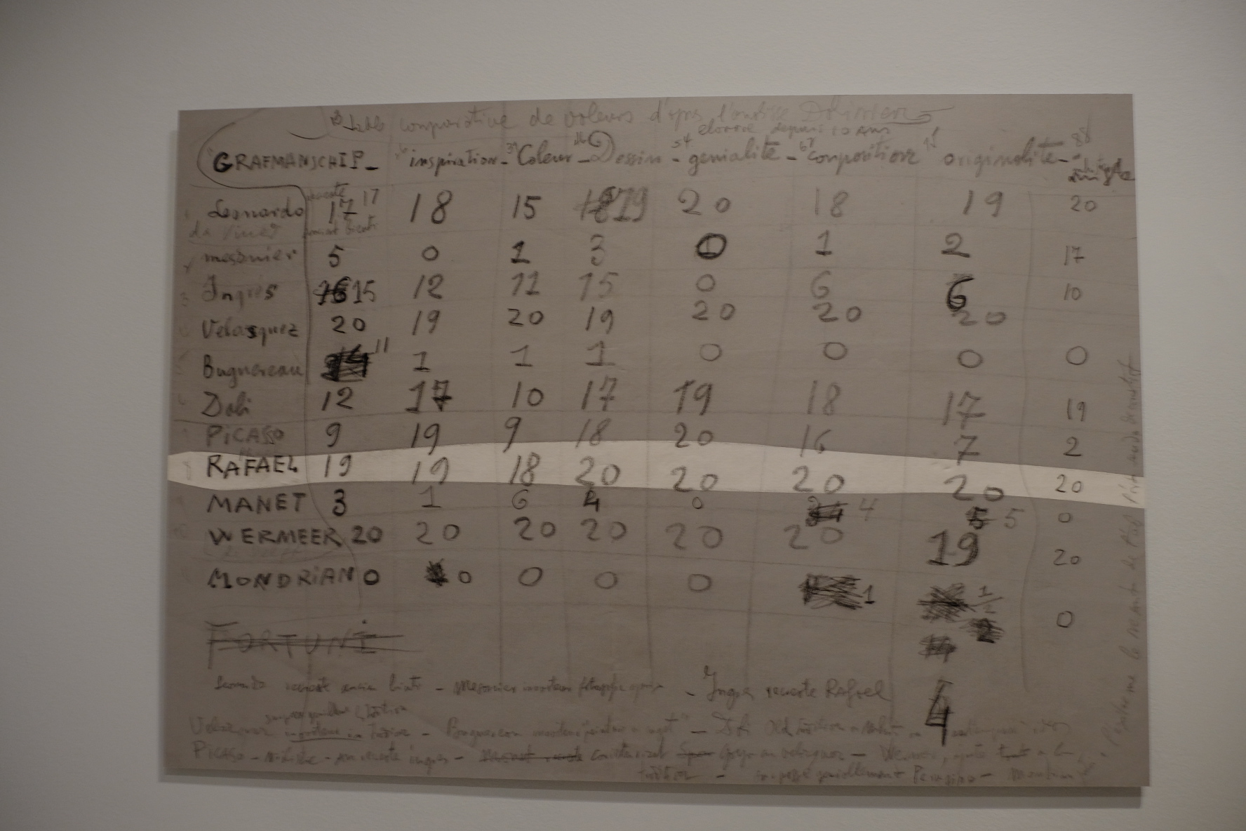 Votes gives to the artists